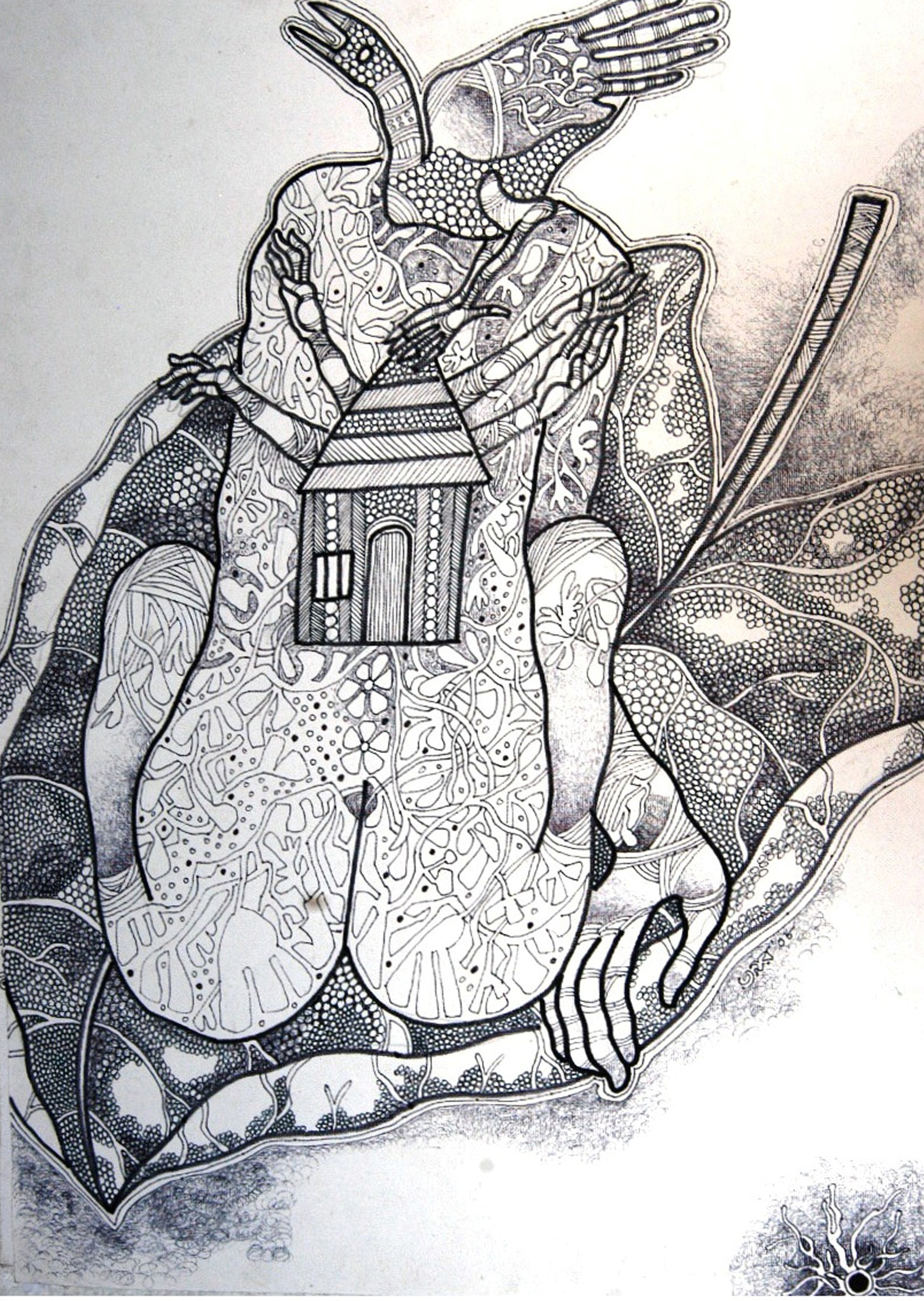 Drawing by Jahar Dasgupta